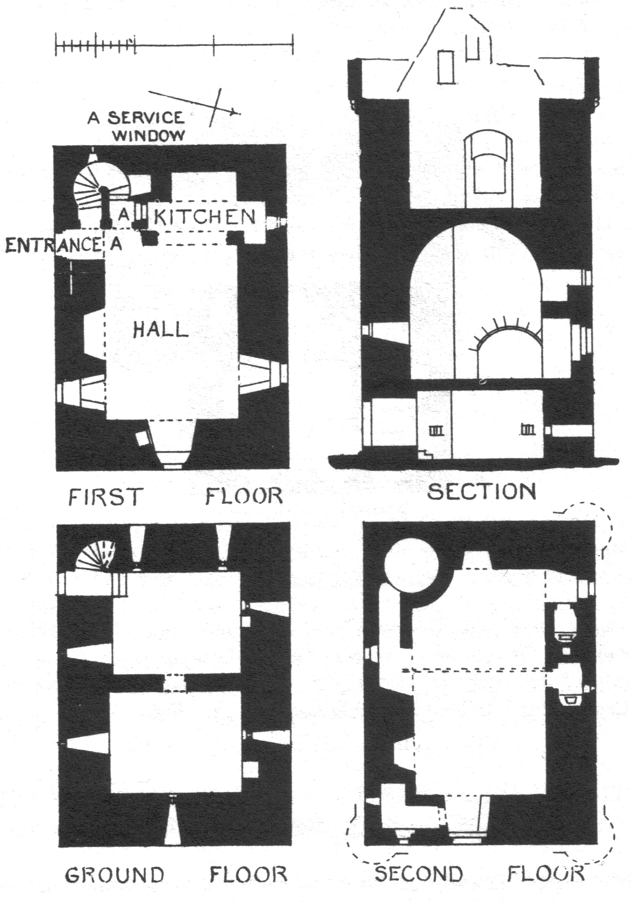 Floor plan of Little Cumbrae Castle, Firth of Clyde, Scotland